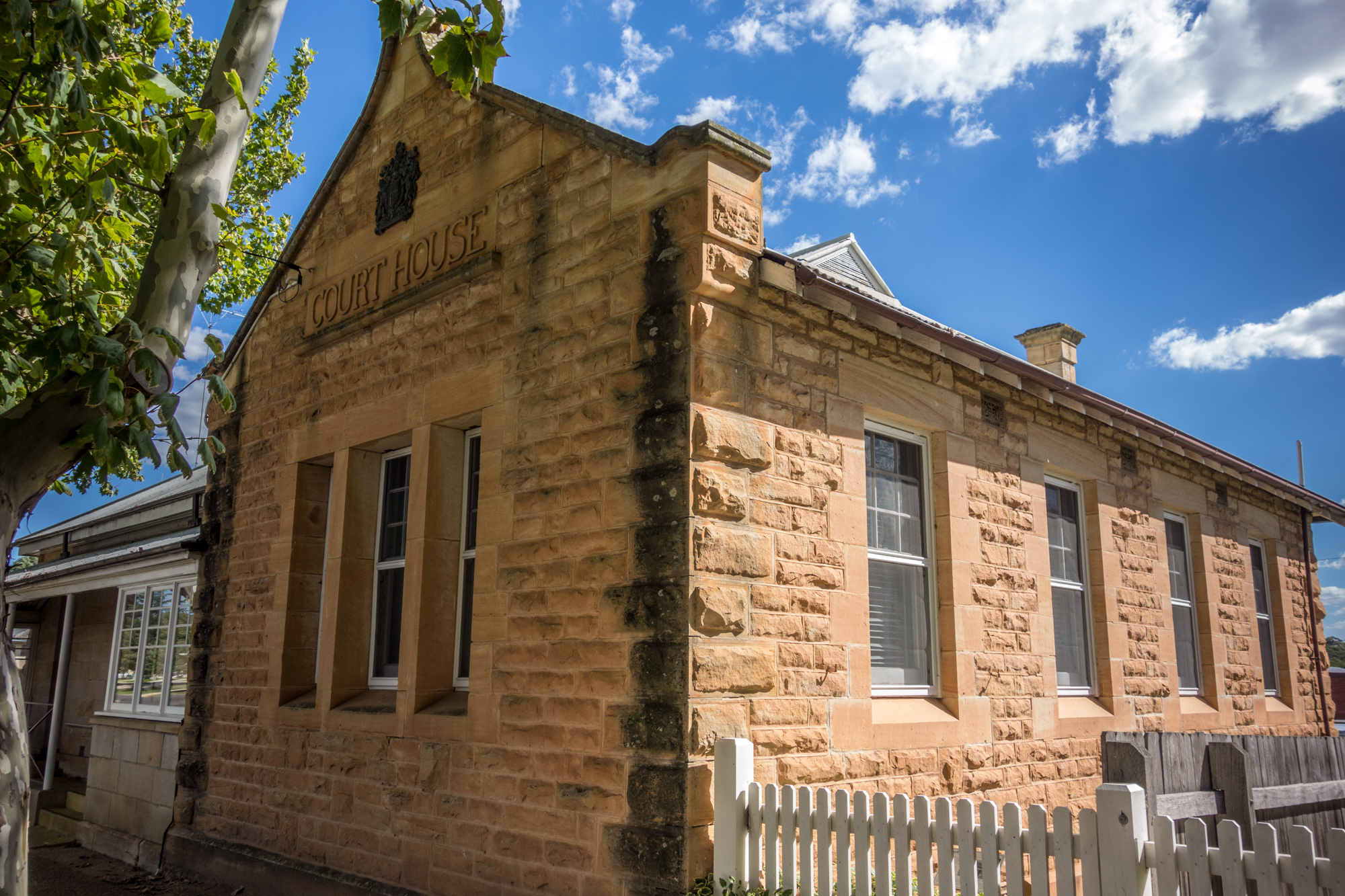 Court House, 1872, Rylstone, NSW, Australia